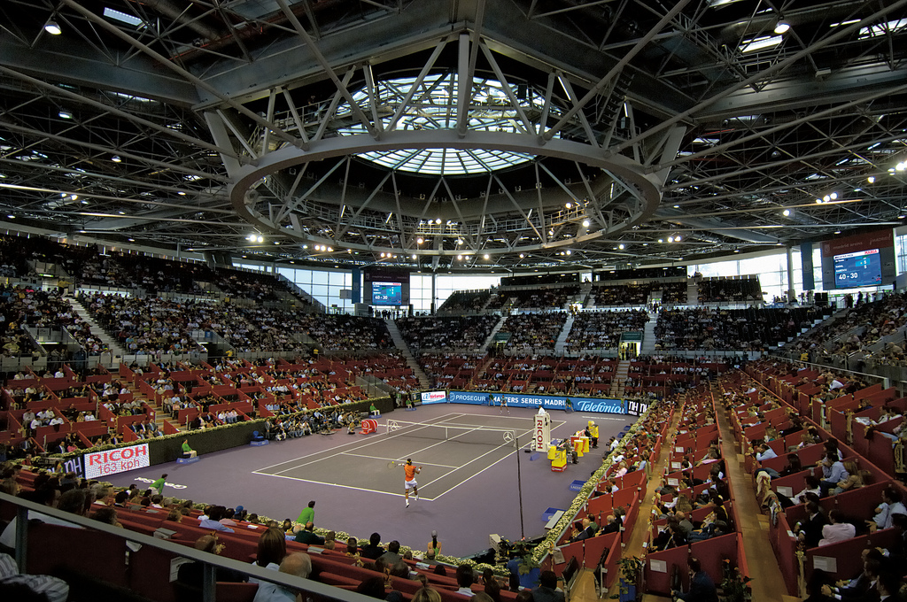 Madrid Arena Tennis Match This photograph can be used for publications, including this copyright statement: “©PromoMadrid, author Max Alexander”. Esta fotografía puede usarse en publicaciones, incluyendo la declaración “©PromoMadrid, autor Max Alexander”.